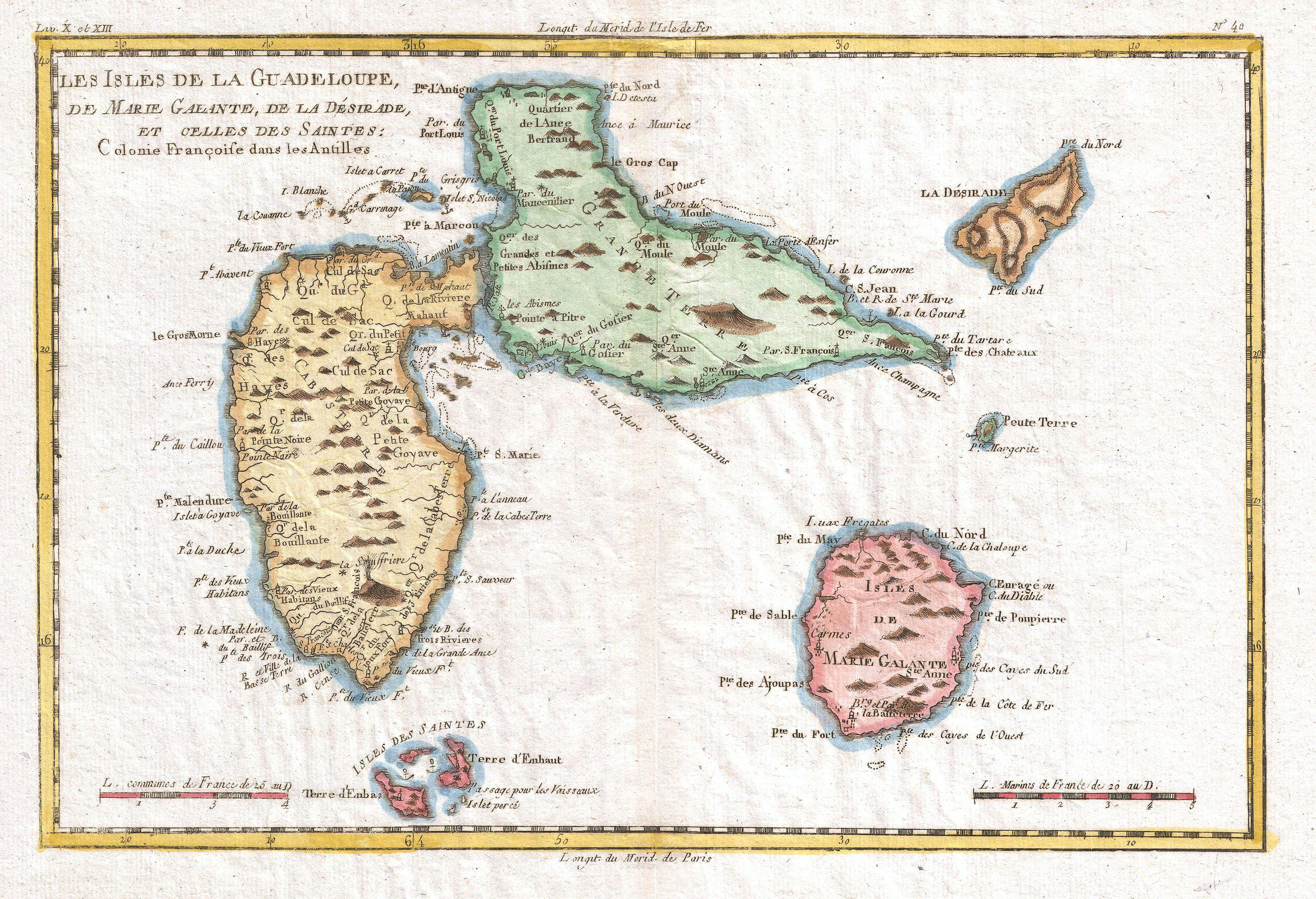 A fine example of Rigobert Bonne and Guilleme Raynal’s 1780 map of the Guadeloupe Islands, West Indies. Includes the islands of Marie-Galante, Basse-Terre, Grande-Terre, Les Saintes, and La Desirade. Shows towns, rivers, some topographical features, and important ports. Drawn by R. Bonne for G. Raynal’s Atlas de Toutes les Parties Connues du Globe Terrestre, Dressé pour l'Histoire Philosophique et Politique des Établissemens et du Commerce des Européens dans les Deux Indes .